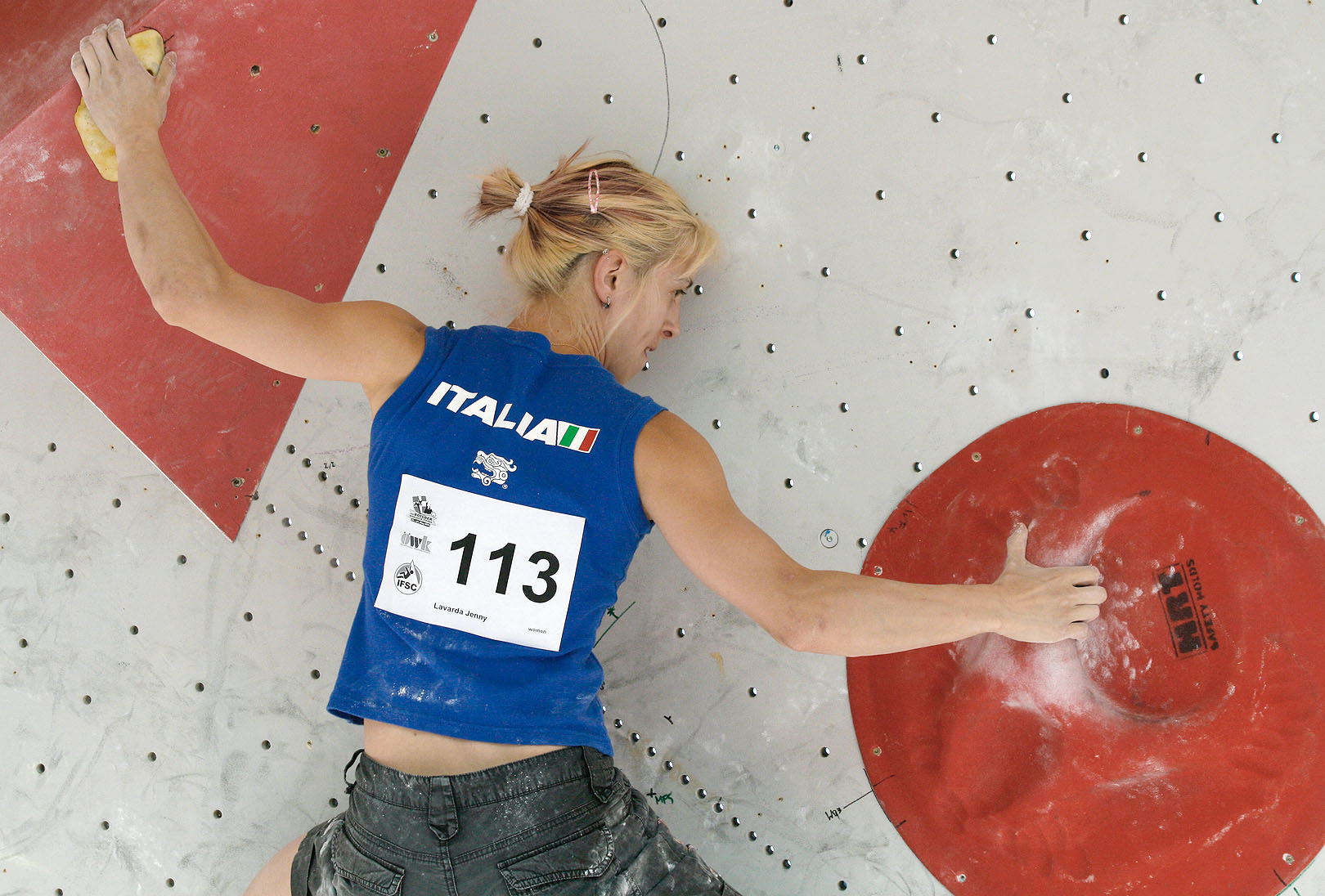 Jenny Lavarda during qualifications at the IFSC Boulder Worldcup Vienna 2010.